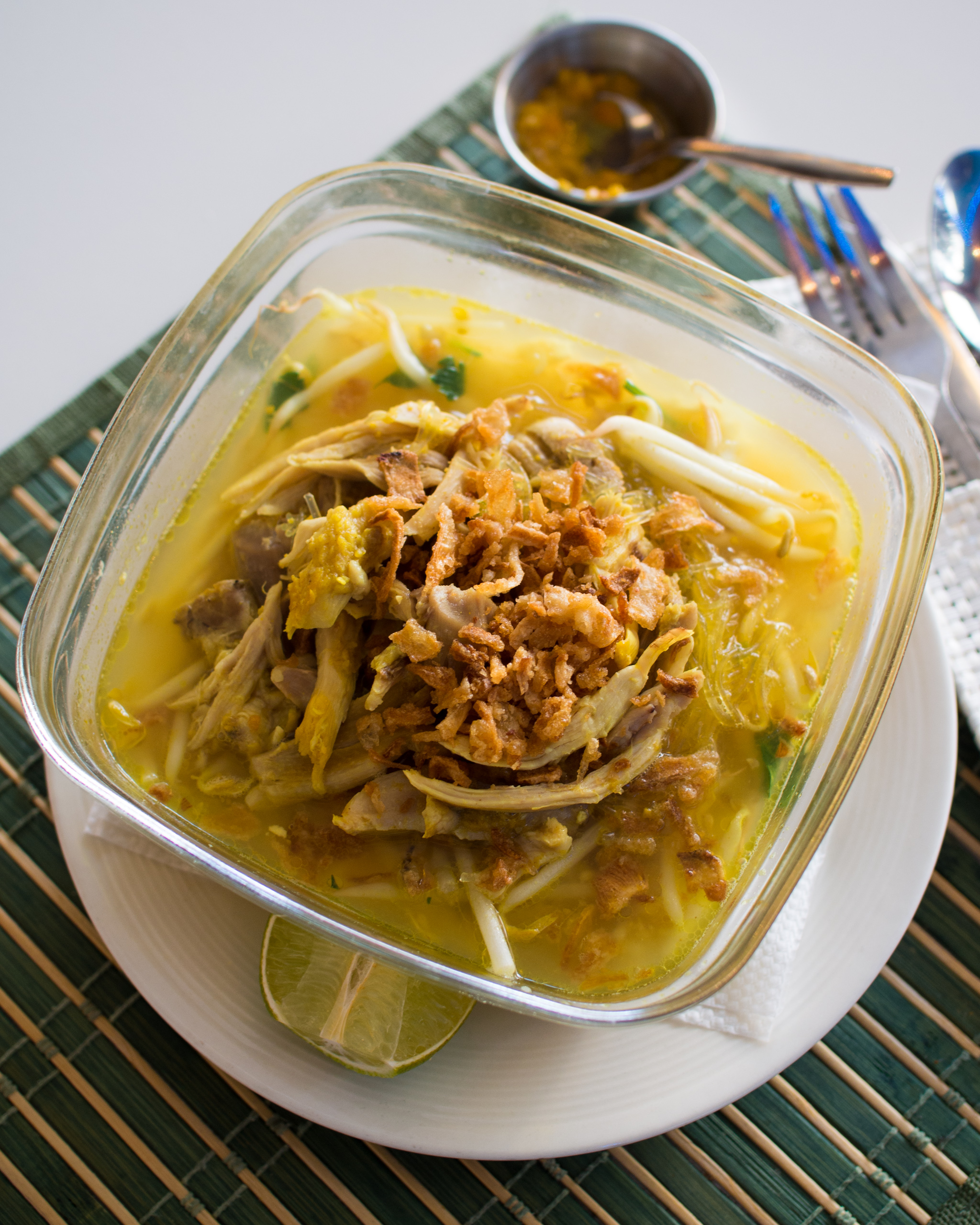 A soto ayam with lontong at Toko Bali, a small Indonesian eatery and takeaway in the Leidsenhage shopping mall.